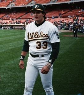 Jose Canseco at the Oakland Coliseum, 1989.